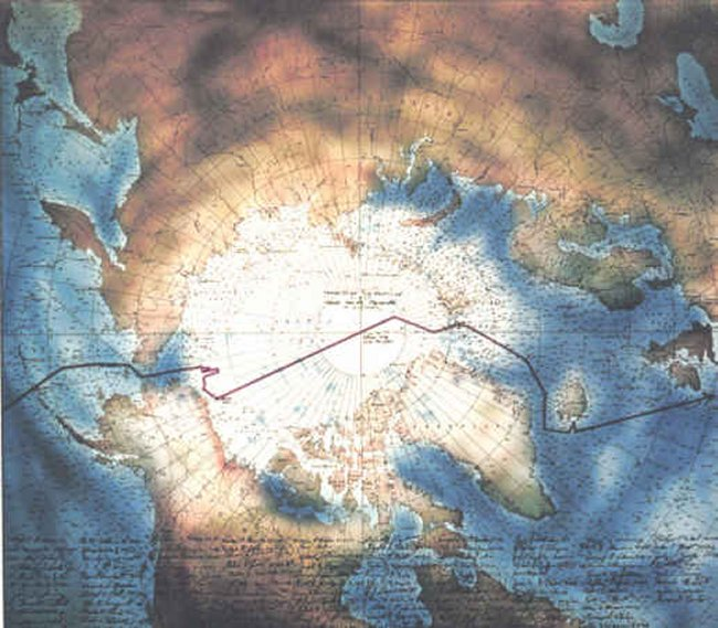 Track of the Nautilus (SSN-571) during her 1958 submerged cruise to the Arctic.